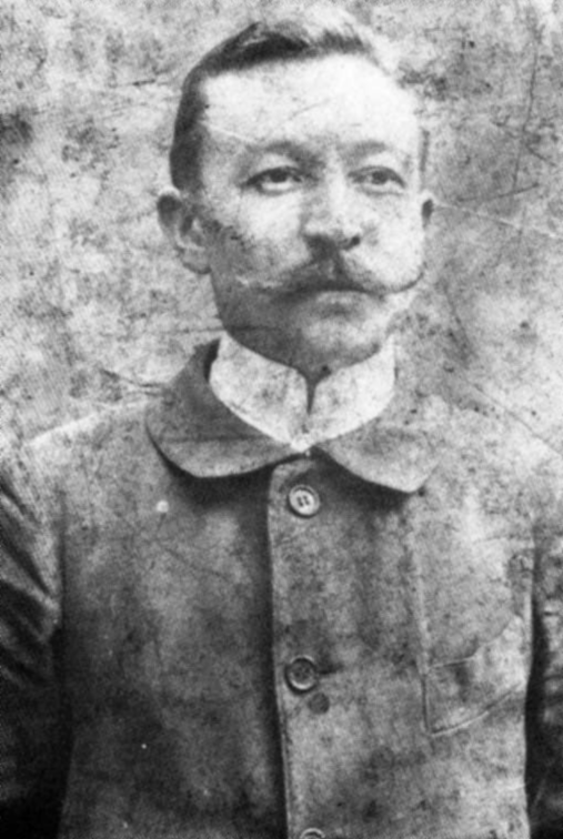 Émile Masson, Breton writer and anarchist.